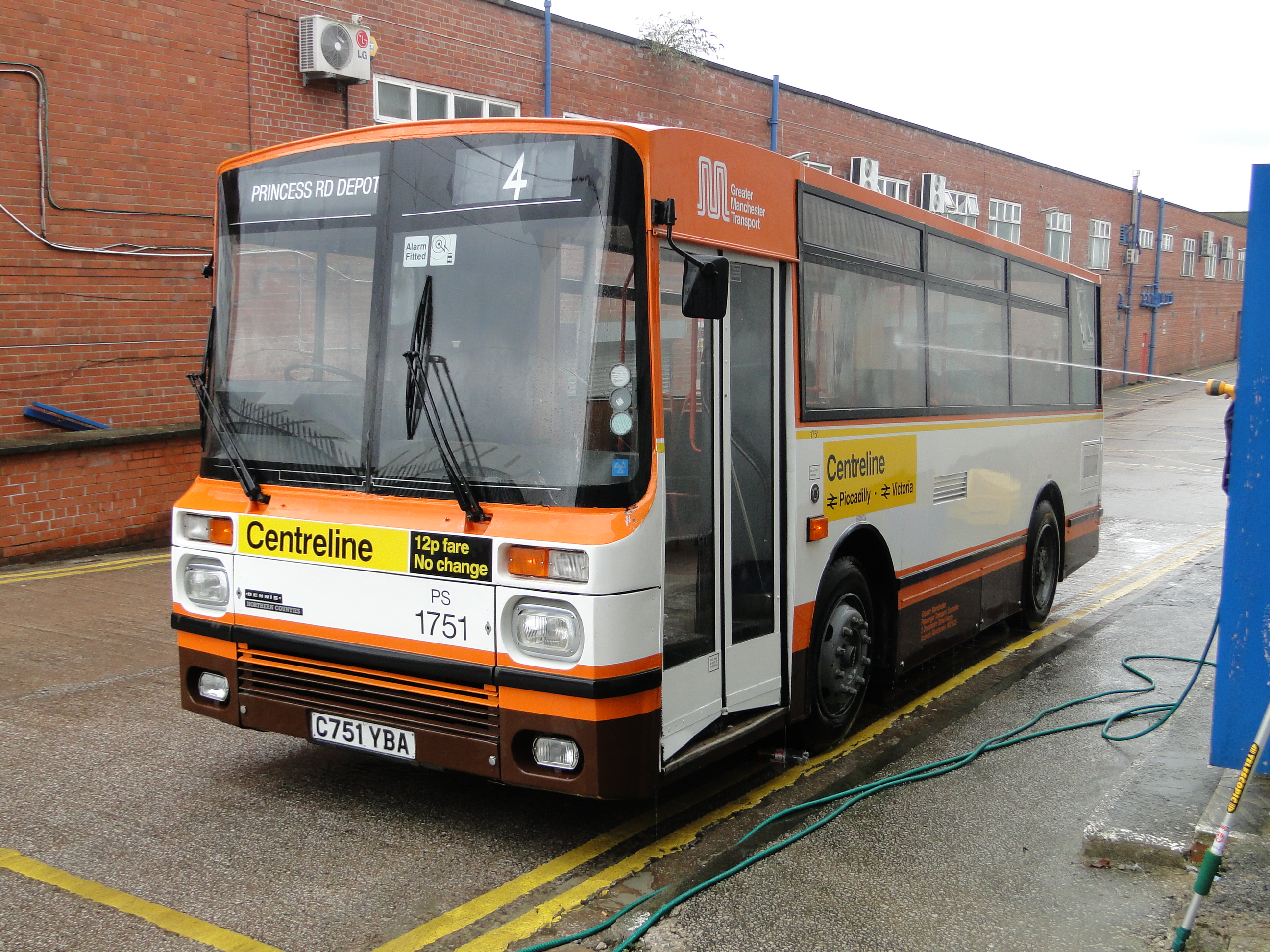 Here a photo of Dennis Domino 1751 (C751 YBA) during a spree of washing a number of SELNEC Preservation Society's vehicles on 9th March 2013.